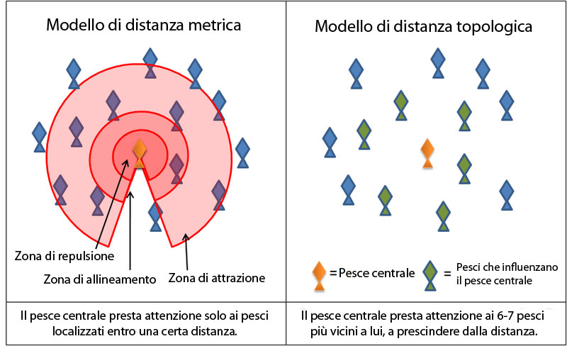 A diagram of the concept of metric distance versus topological distance as applied to schools of fish, translated in italian